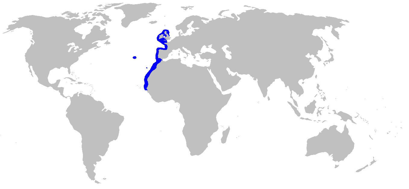 Distribution map for Oxynotus paradoxus